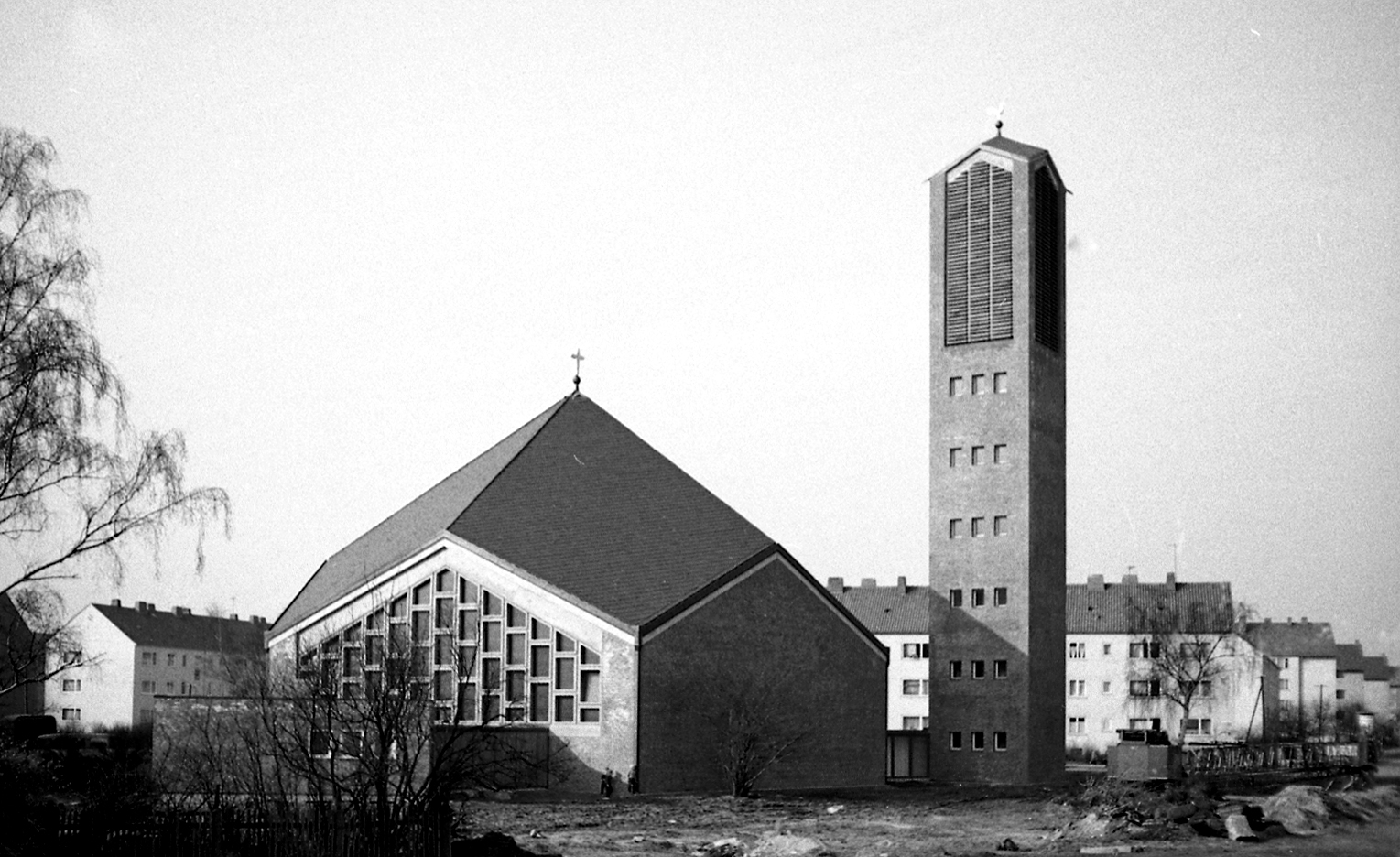 Corvinuskirche in Hanover, Herrenhausen, Germany shortly after completion in 1962. View from the south.